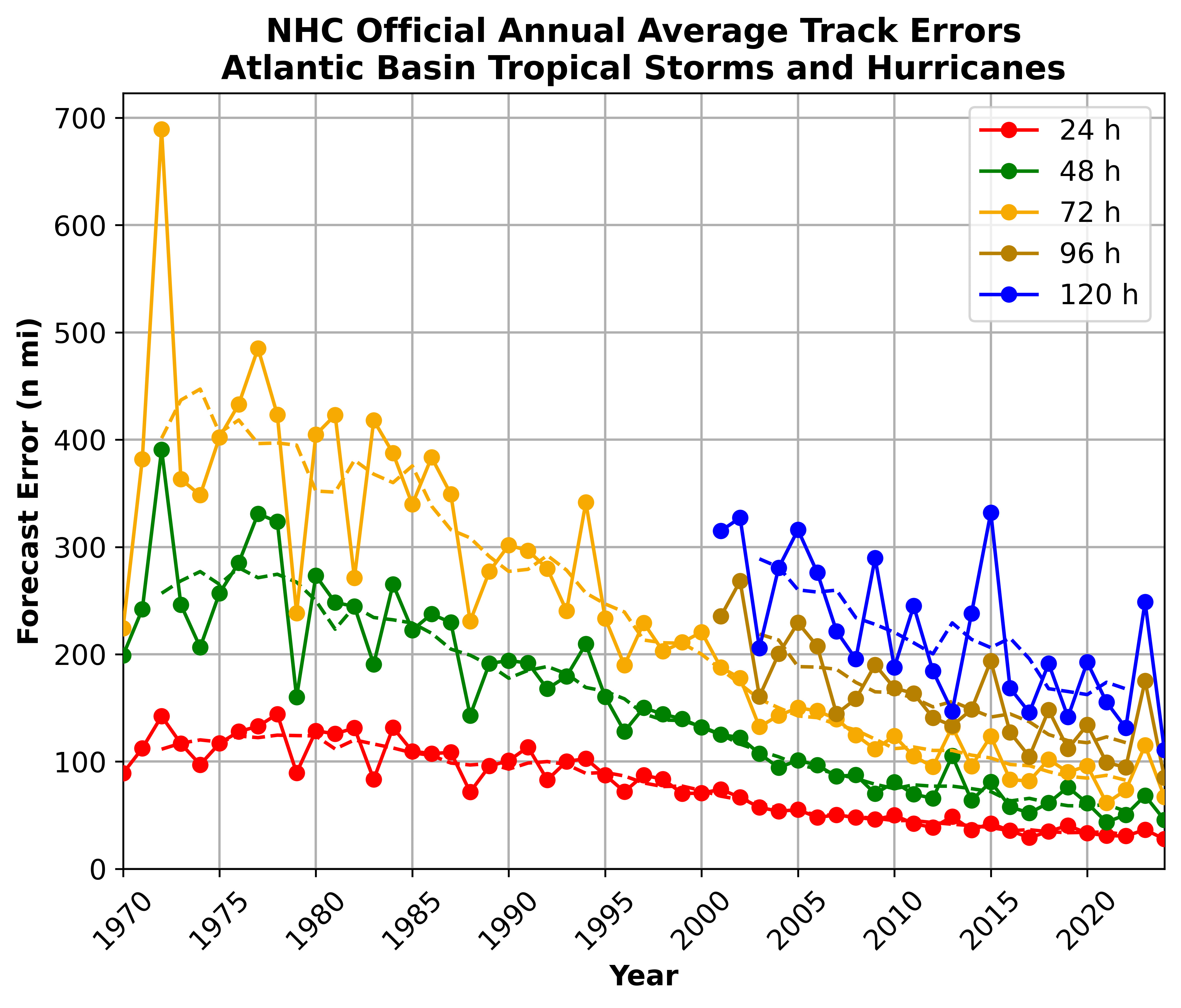 Error on the track since 1970 in Nautical miles. The different lines represent the forecasted position at different times prior to the verification (ex. 36h means the forecast made 36 h before the verification).